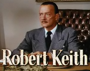 Cropped screenshot of Robert Keith from the trailer for the film Small Town Girl.